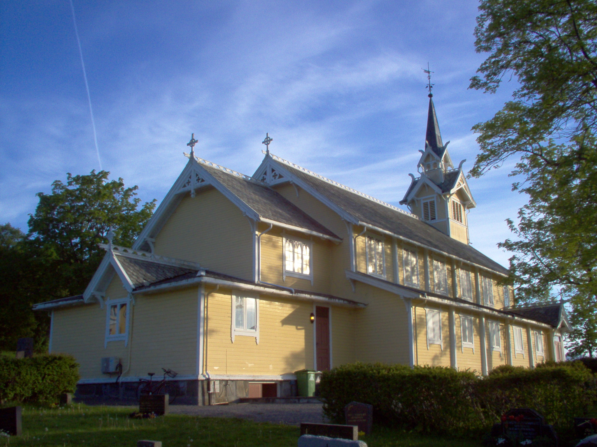 The church on Frei, Norway